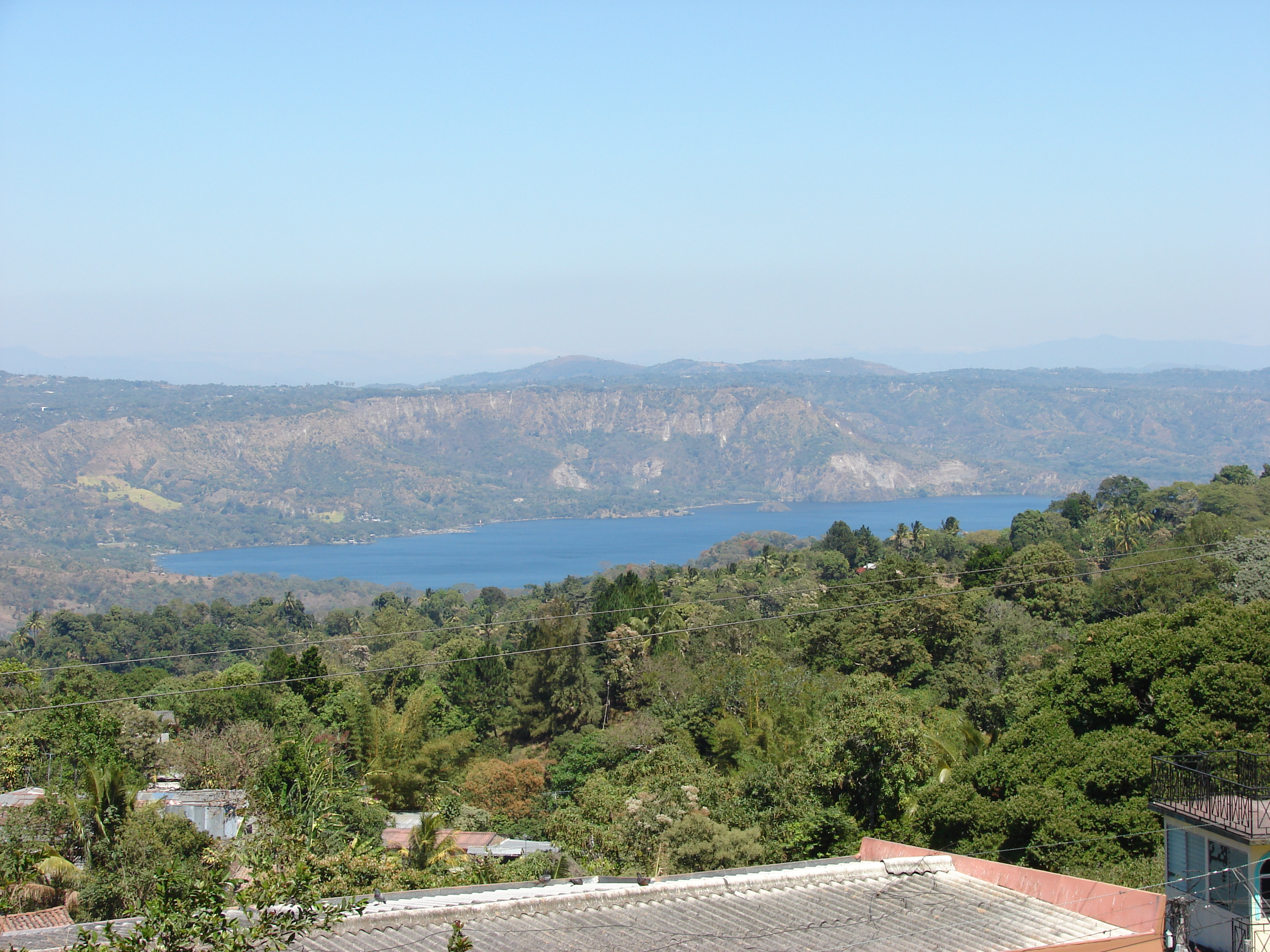 Lake Ilopango as seen from Santiago Texacuangos, El Salvador.